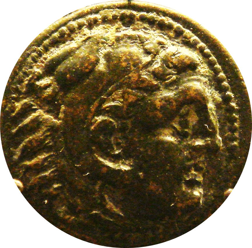 Coin of Cassander